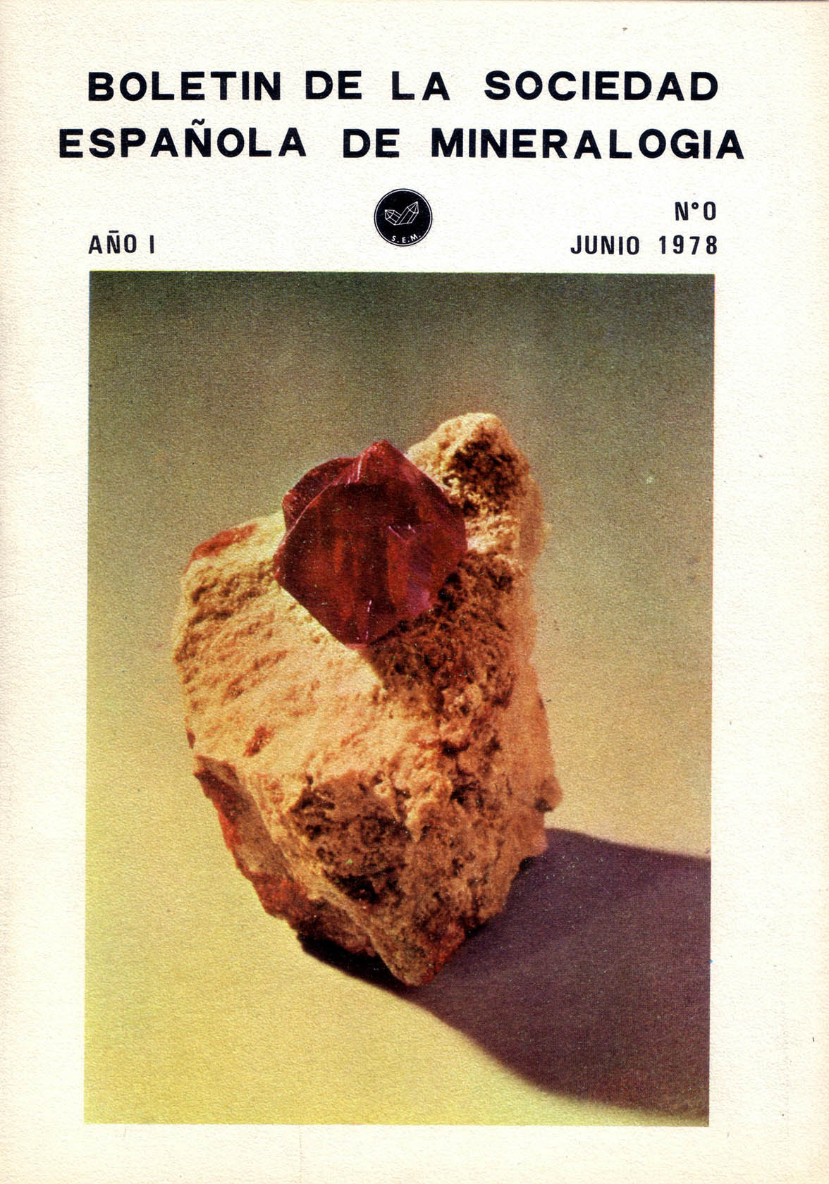 Cover of the first issue of the Boletín de la Sociedad Española de Mineralogía